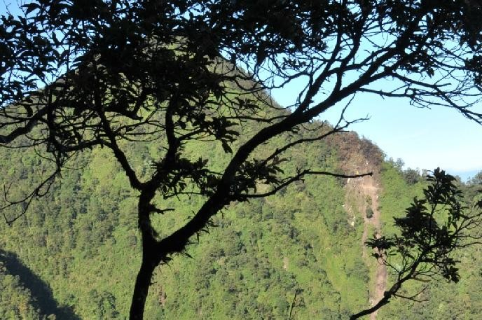 A view of the eastern face of Mount Salak, Indonesia, with the point (right) where a Sukhoi Superjet impacted the mountain during a demonstration flight on 9 May 2012.